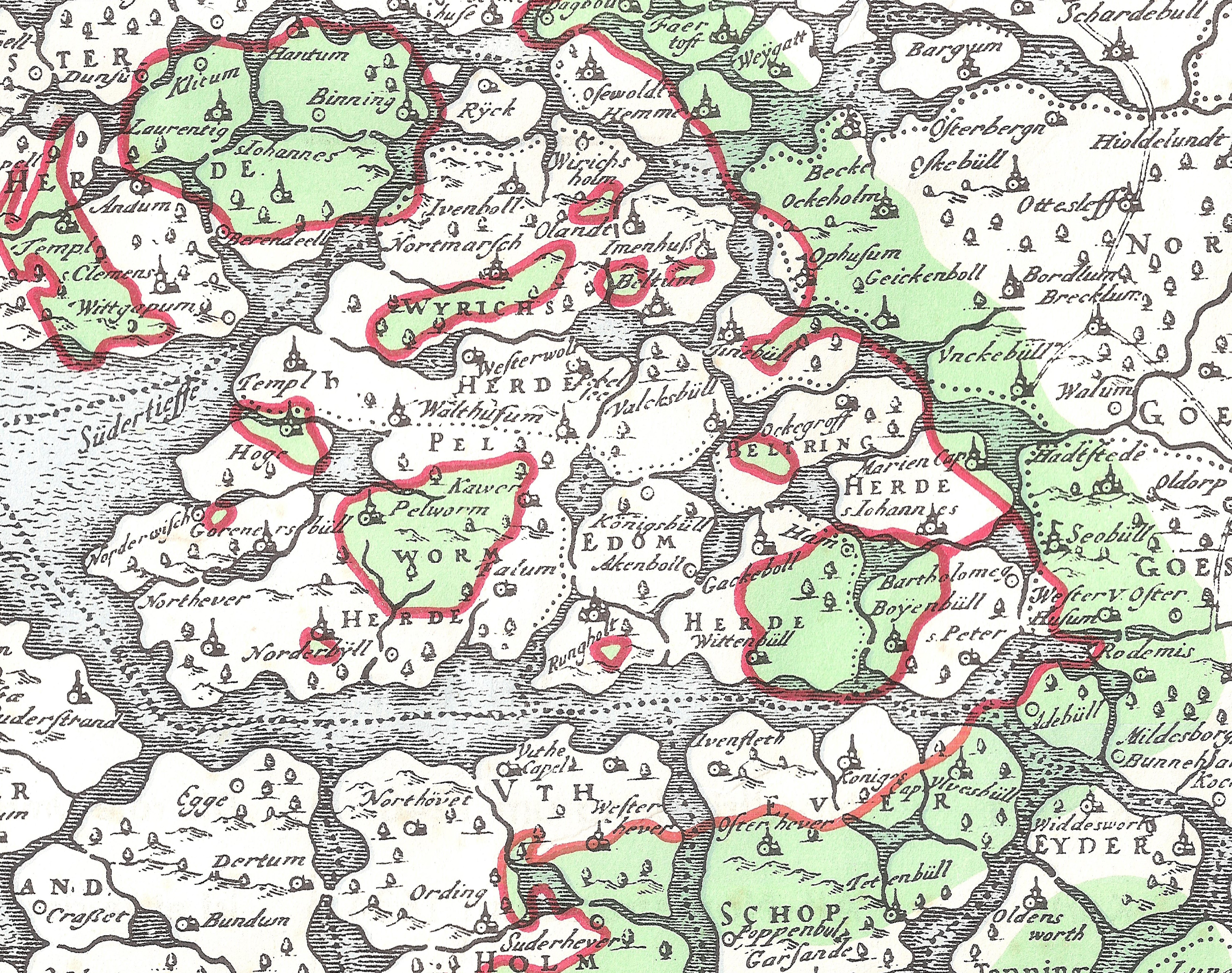 Alt-Nordstrand, section from Nordfriesland map of Johannes Mejer around 1240 (before the storm surge 1362). The red lines indicate the coastline at the time of the report template.